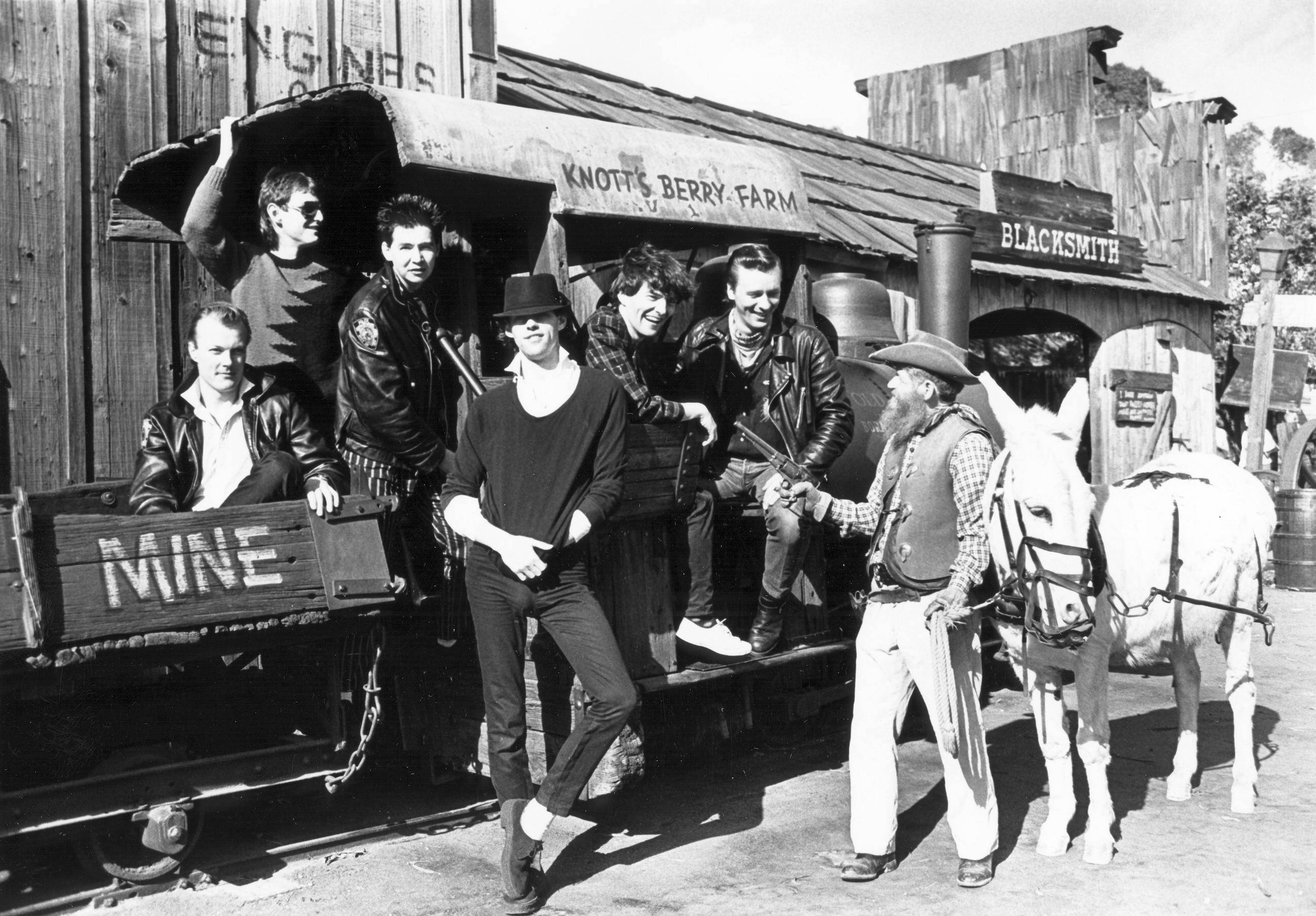 There are no known copyright restrictions on this image. All future uses of this photo should include the courtesy line, "Photo courtesy Orange County Archives." Comments are welcome after reading our Comment Policy. Photo from the Knott's Berry Farm Collection.